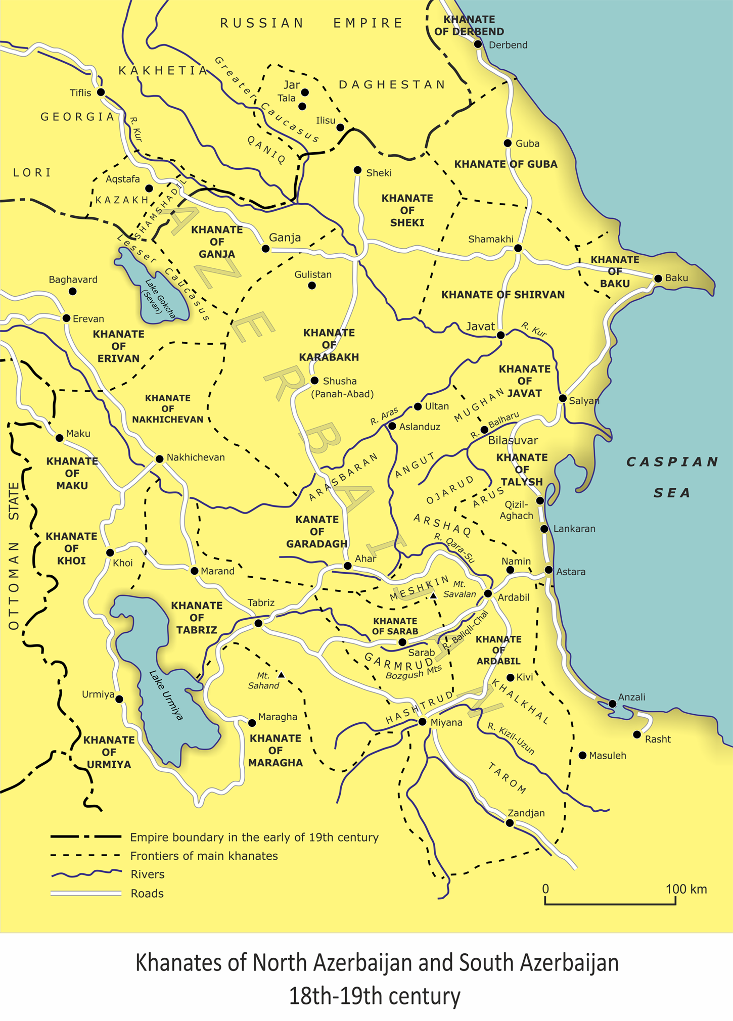 Territories of Northern and Southern Khanates (and Sultanates) of Azerbaijan in 18th-19th centuries Based on the original sources: 1."Frontier nomads of Iran: a political and social history of the Shahsevan" Author: Richard Tapper Cambridge University Press, 1997 ISBN 0 521 58336 5 hardback 2."Russian Azerbaijan, 1905-1920: The shaping of national identity in a muslim community" Author: Tadeusz Swietochowski Cambridge University Press, 1985 ISBN 0 521 26310 7 hardback ISBN 0 521 52245 5 paperback 3."Russia and Iran, 1780-1828" Author: Muriel Atkin University of Minnesota Press, 1980 ISBN 0 8166 0924 1